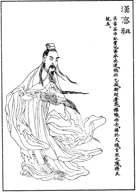 Emperor Gaozu of Han.